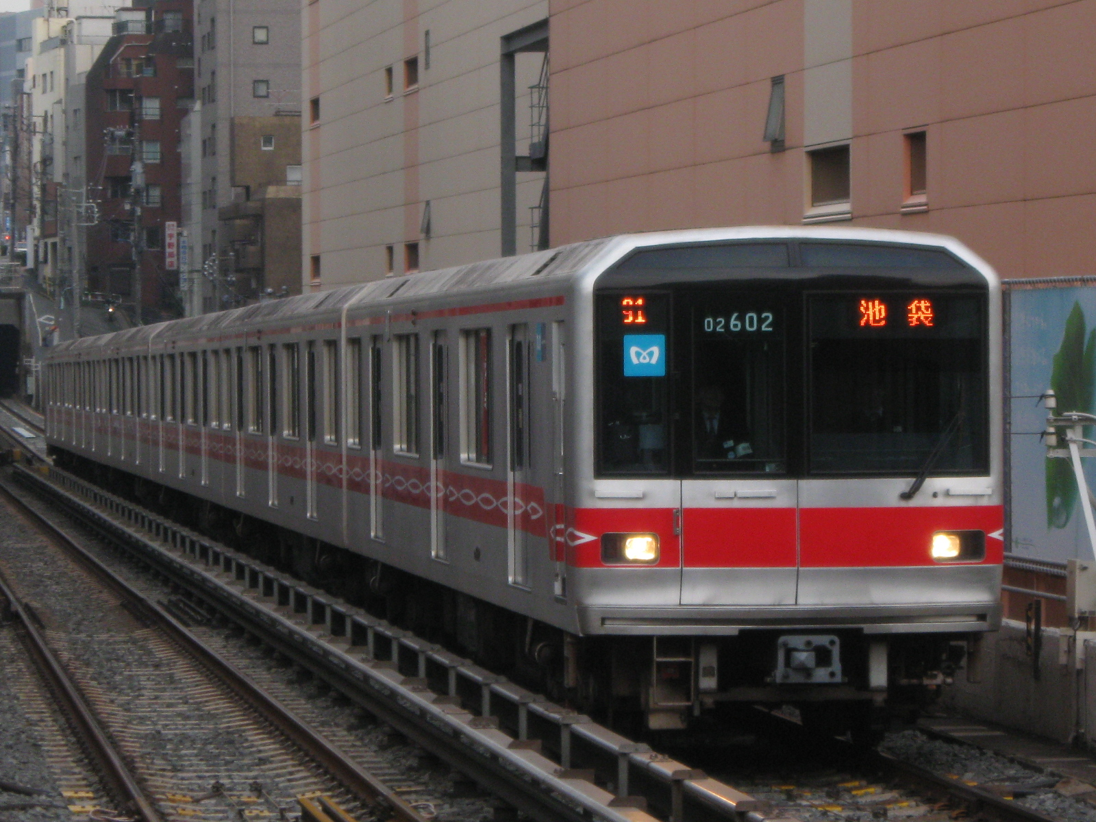 Refurbished Tokyo Metro 02 series EMU set 102 at Korakuen Station on the Marunouchi Line